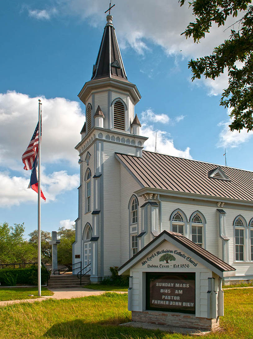 Exterior of Sts. Cyril & Methodius Catholic Church in Dubina, Texas